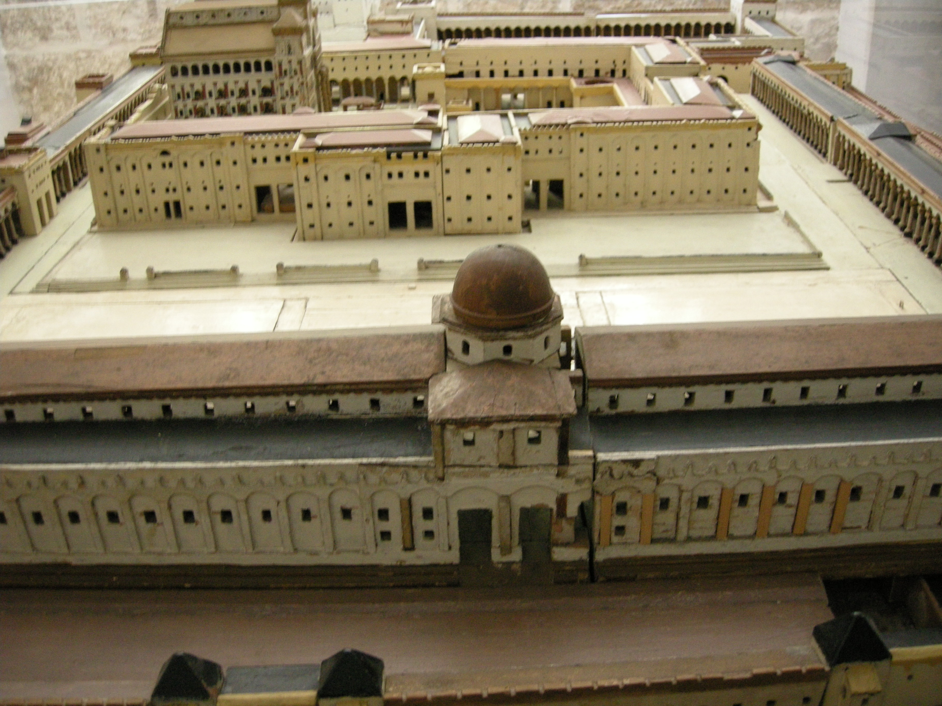 Siur_wikipedia_in__Jerusalem